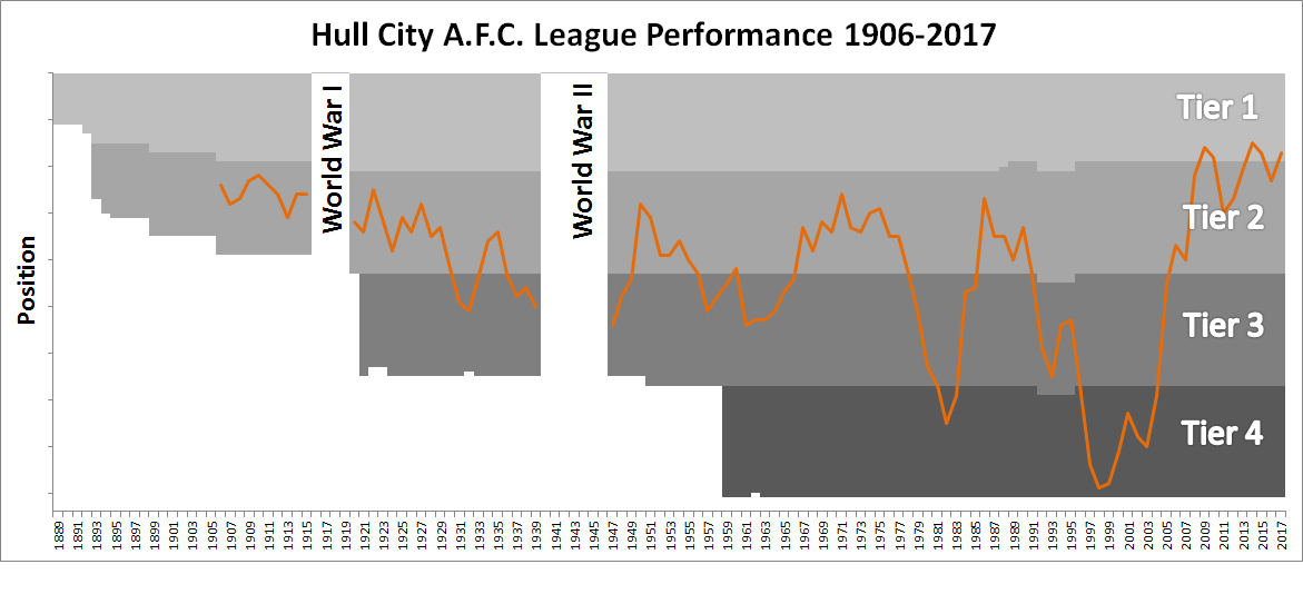 Chart showing the progress of Hull City's league finishes since the 1905–06 season